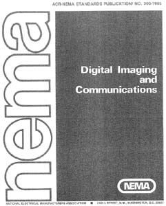 Front page of old ACR NEMA Standard from 1985